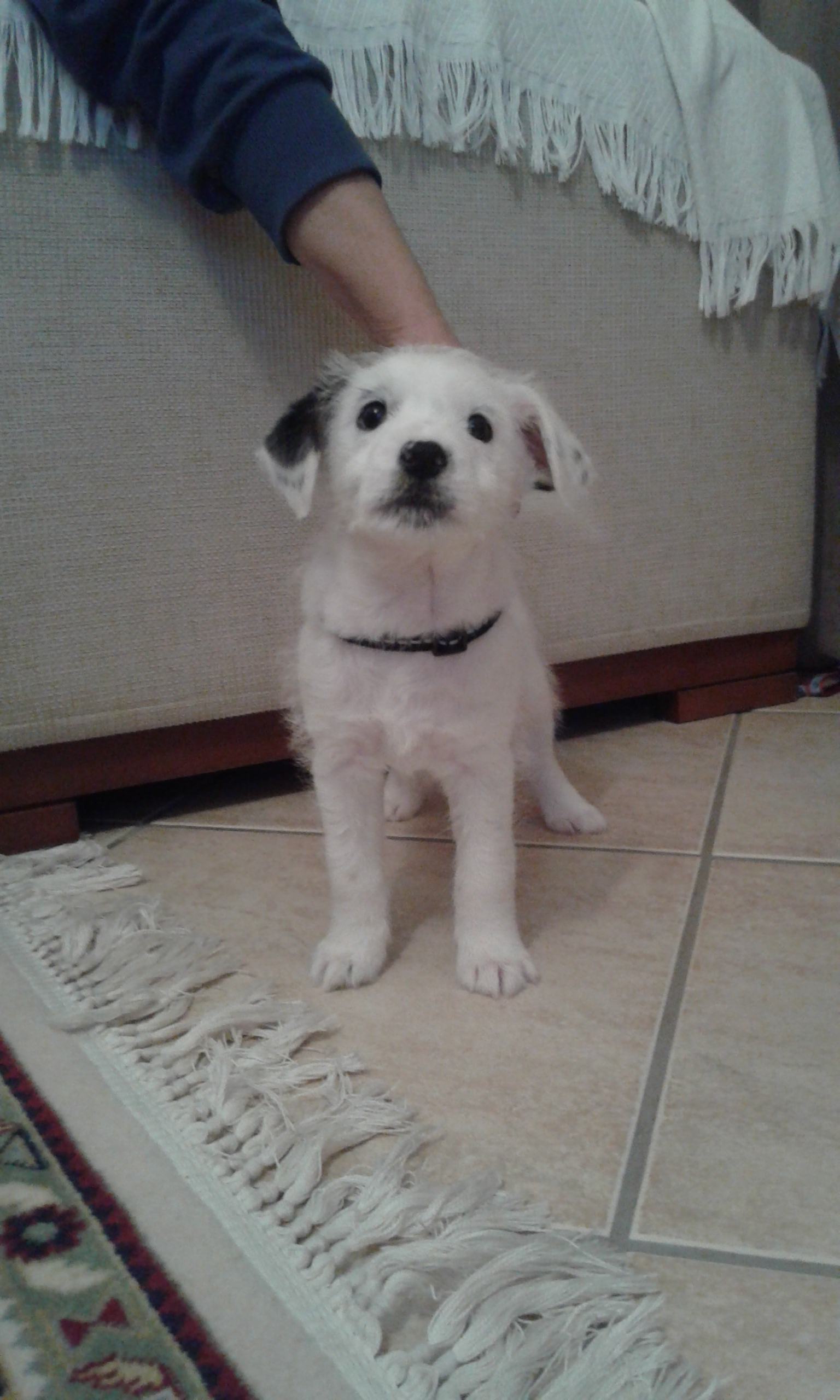 The Jack Russell Terrier is a small terrier that has its origins in fox hunting.